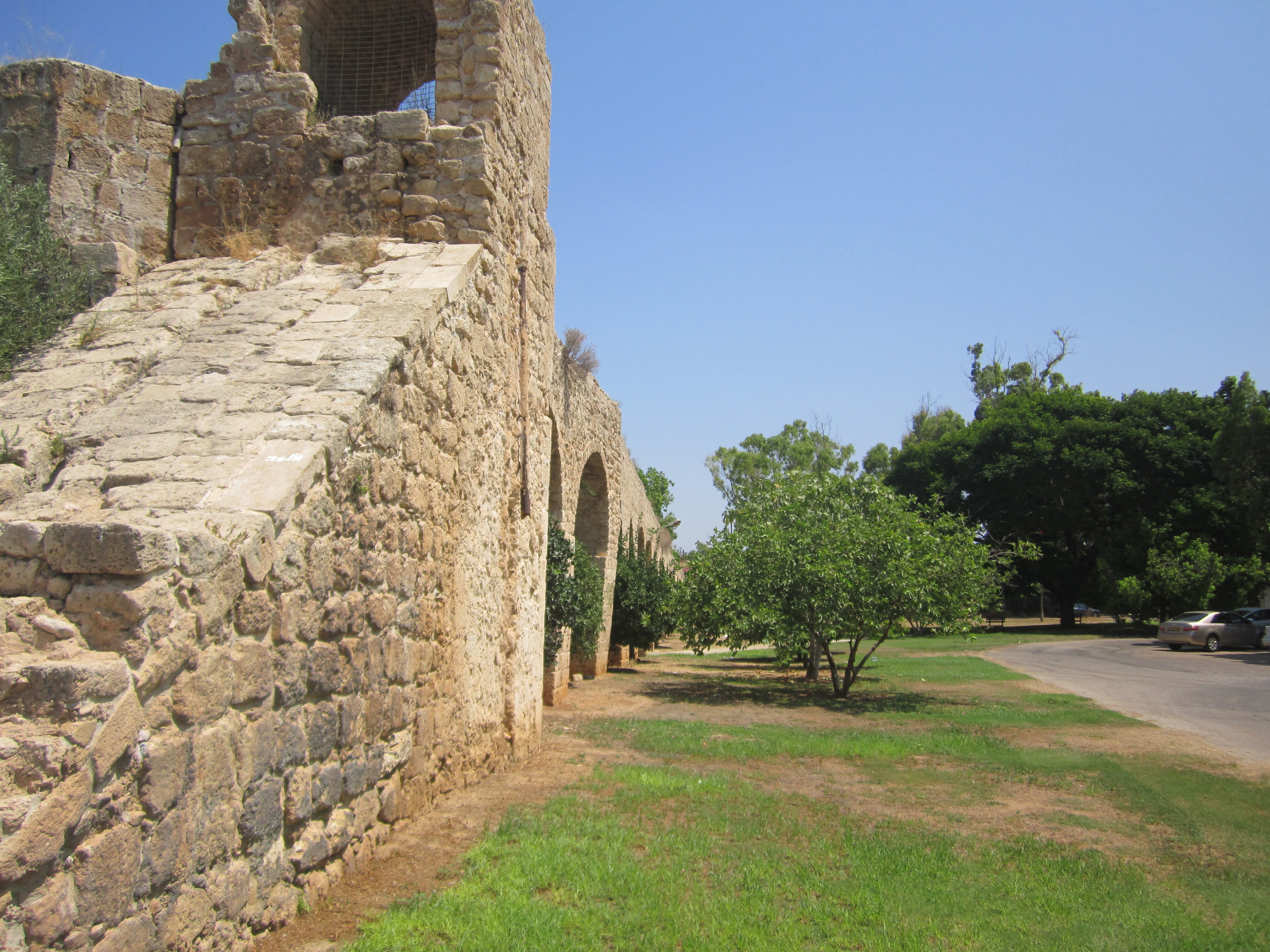 remains of ancient aquaduct near Manof youth village acre